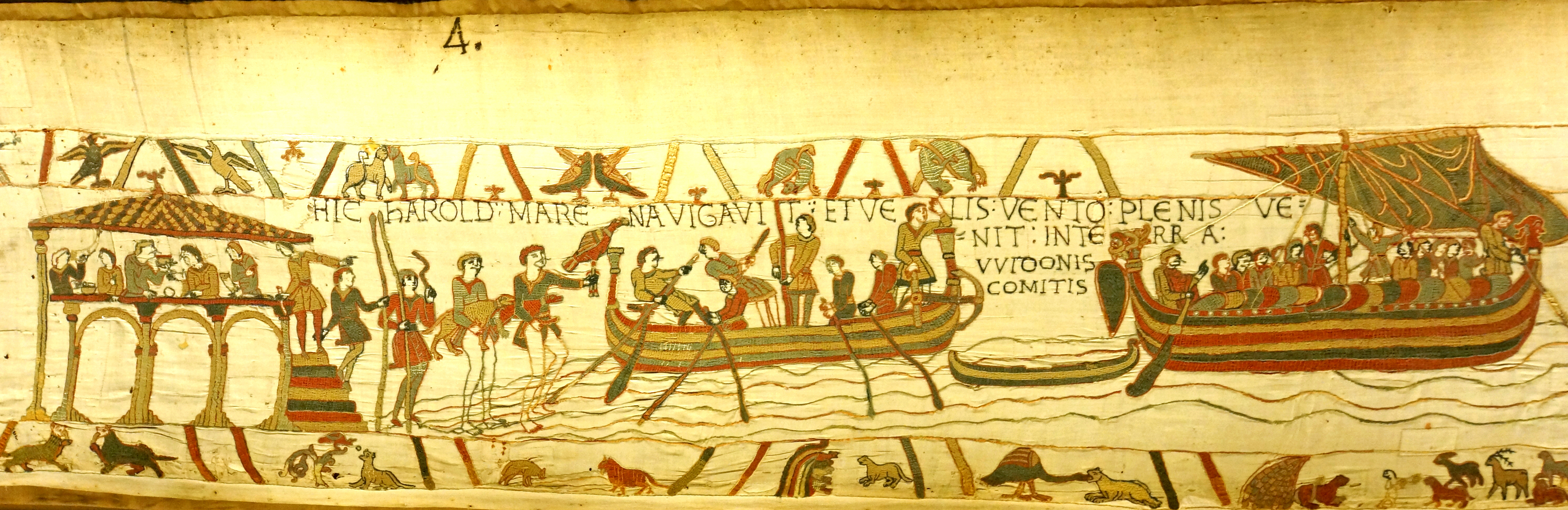 PLEASE, NO invitations or self promotions, THEY WILL BE DELETED. My photos are FREE to use, just give me credit and it would be nice if you let me know, thanks. The Bayeux Tapestry is an embroidered cloth—not an actual tapestry, which is instead woven—nearly 70 metres (230ft) long, which depicts the events leading up to the Norman conquest of England. 4 & 5 - Harold sailed by sea, sails filled with wind came to the land of Count Wido